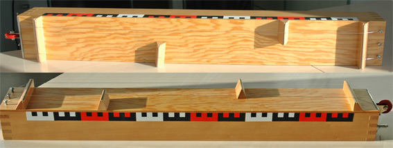 Monochord from the collection of the Canton School Rychenberg (Winterthur)